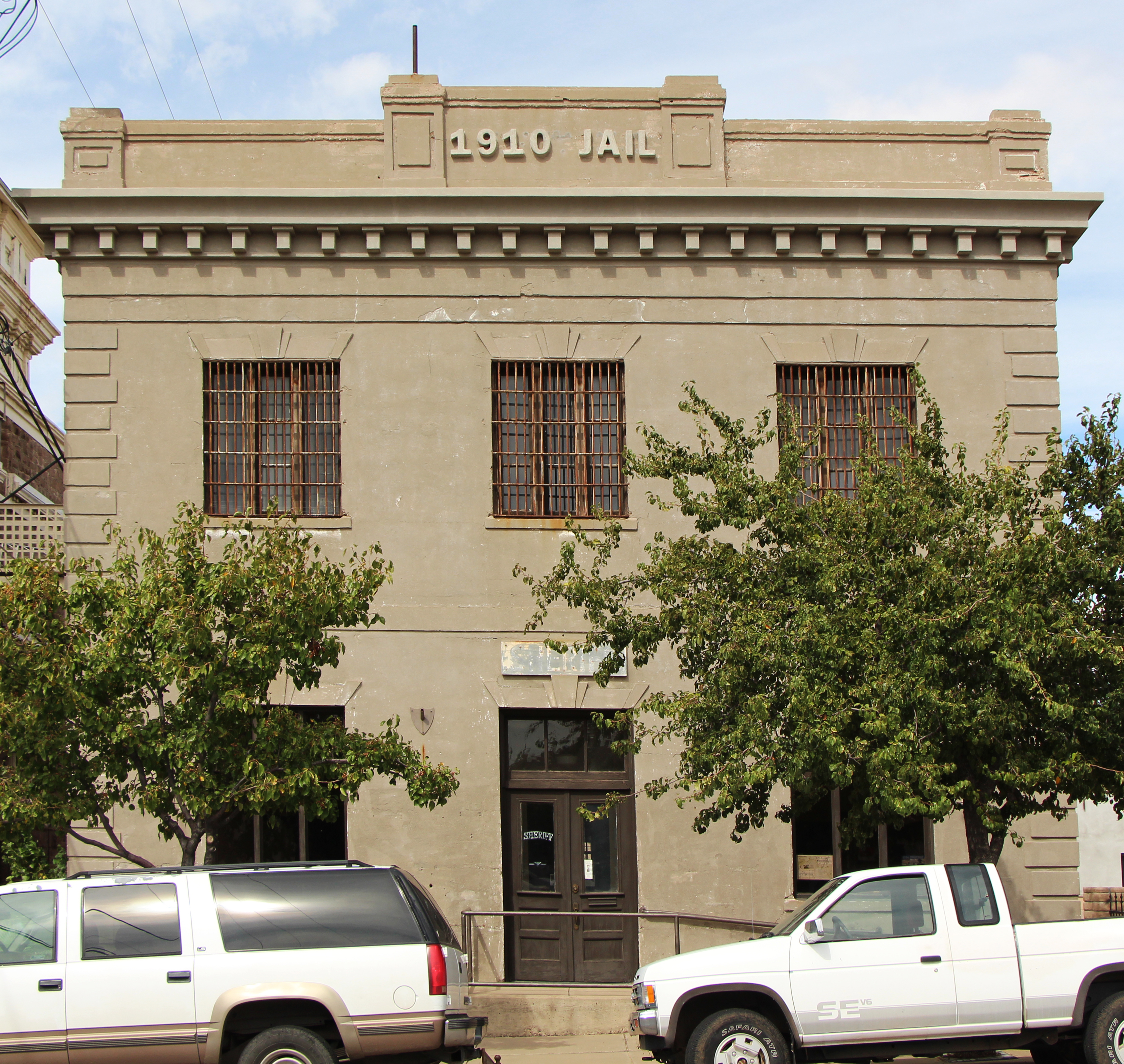 Gila County Jail, Oak Street, Globe, AZ